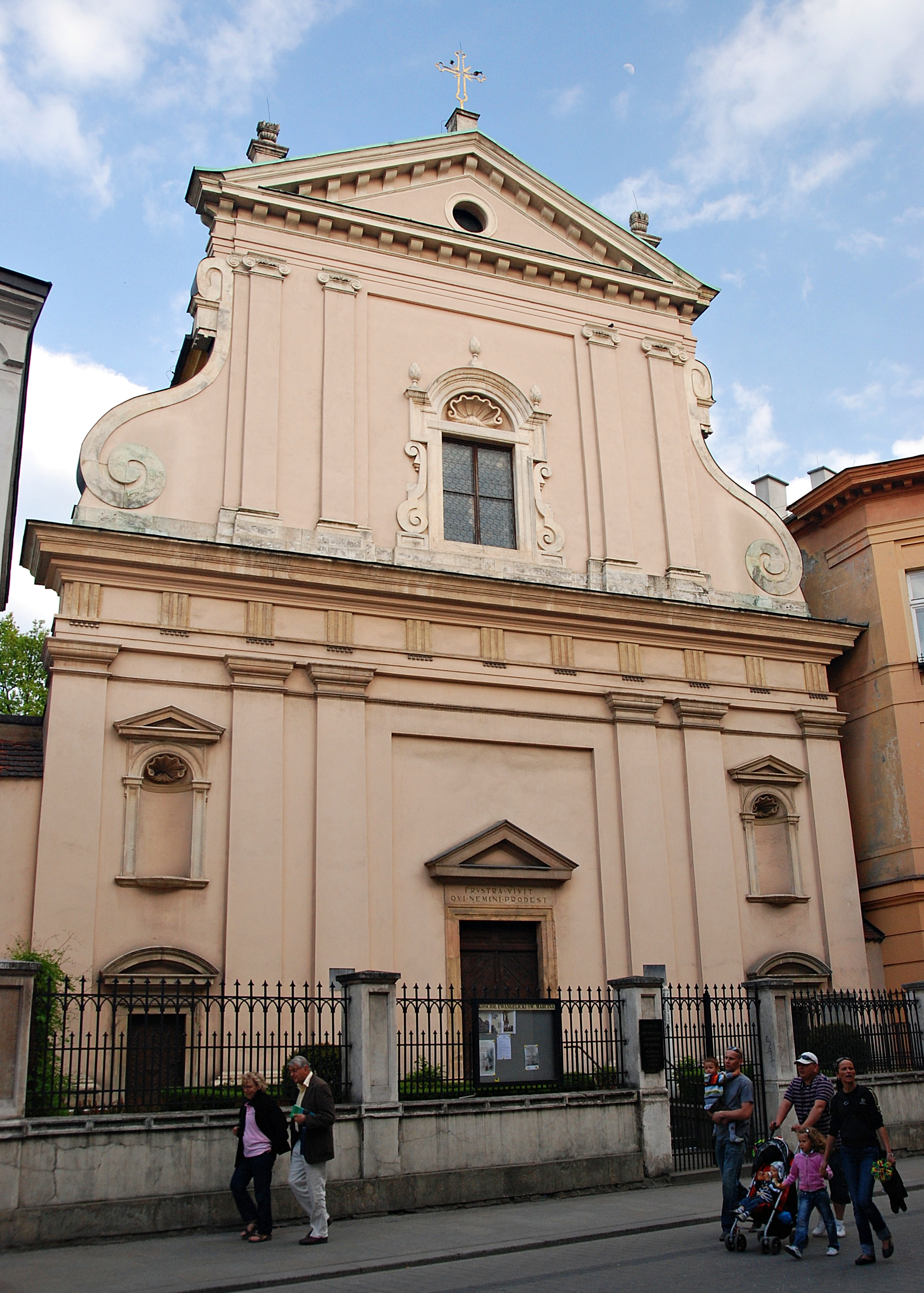 Church of St. Martin in Kraków